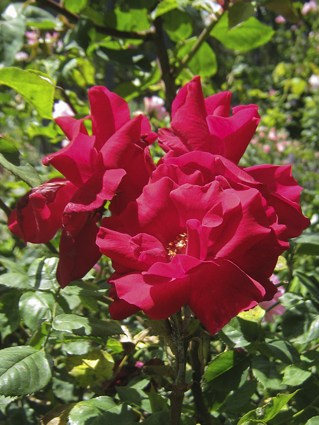 Rose 'Billy Boiler' Hybrid Tea by Alister Clark 1927; photographed at the Alister Clark Memorial Rose Garden, Bulla, Victoria